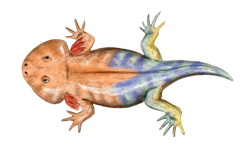 Karaurus sharovi, a salamander from the Upper Jurassic of Kazakhstan, pencil drawing